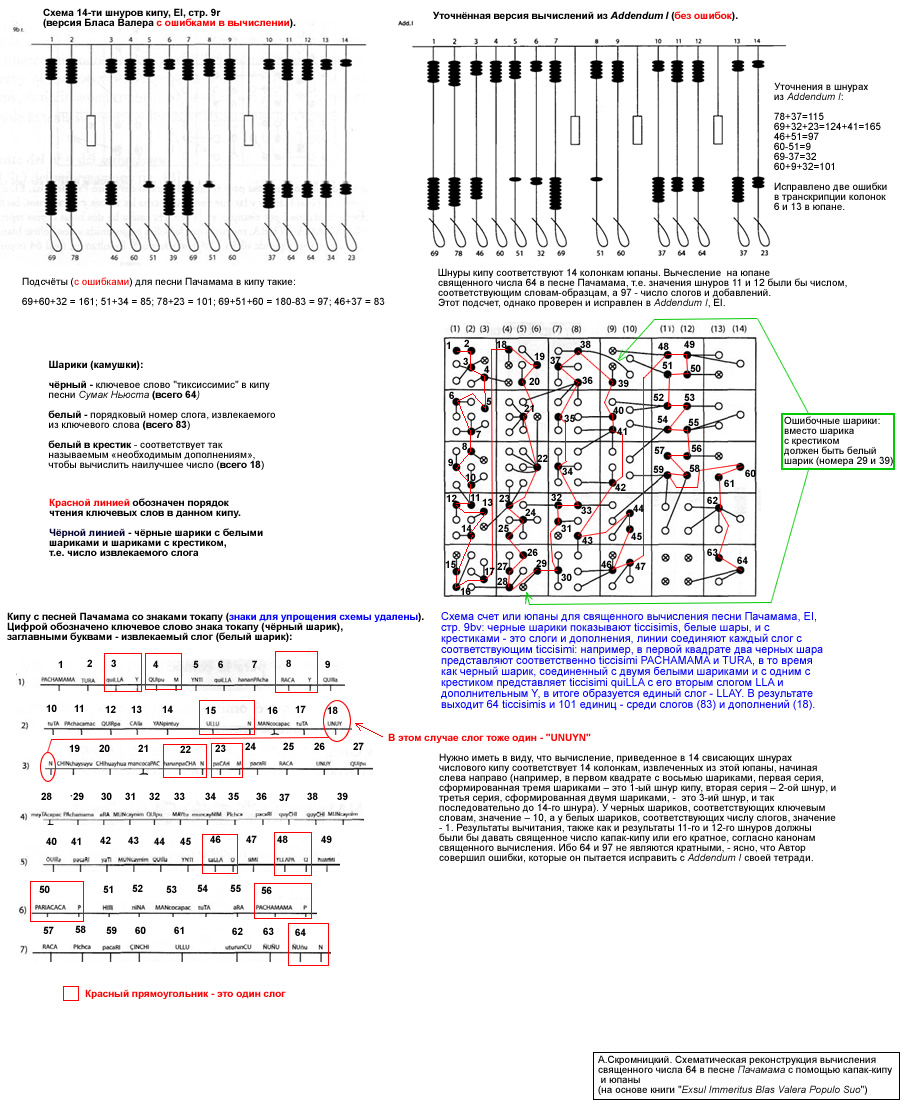 A. Skromnitsky. Yupana of the inkas. The song of Pachamama. Deciphering are based in the books “Exsul Immeritus Blas Valera Populo Suo”